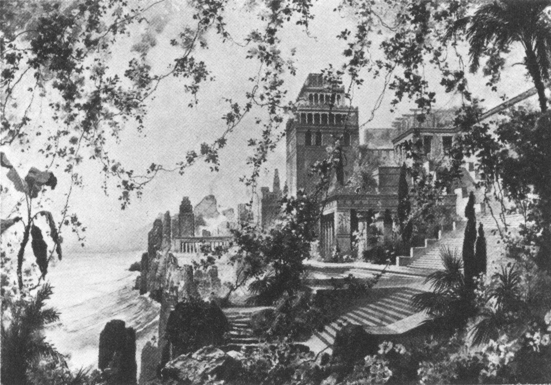 Gluck - Armide - design for the stage set of act 5 - Maifestspiele Wiesbaden 1902